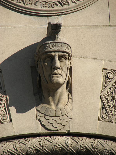 Trojan Head atop the Physical Education Building, University of Southern California in Los Angeles, California